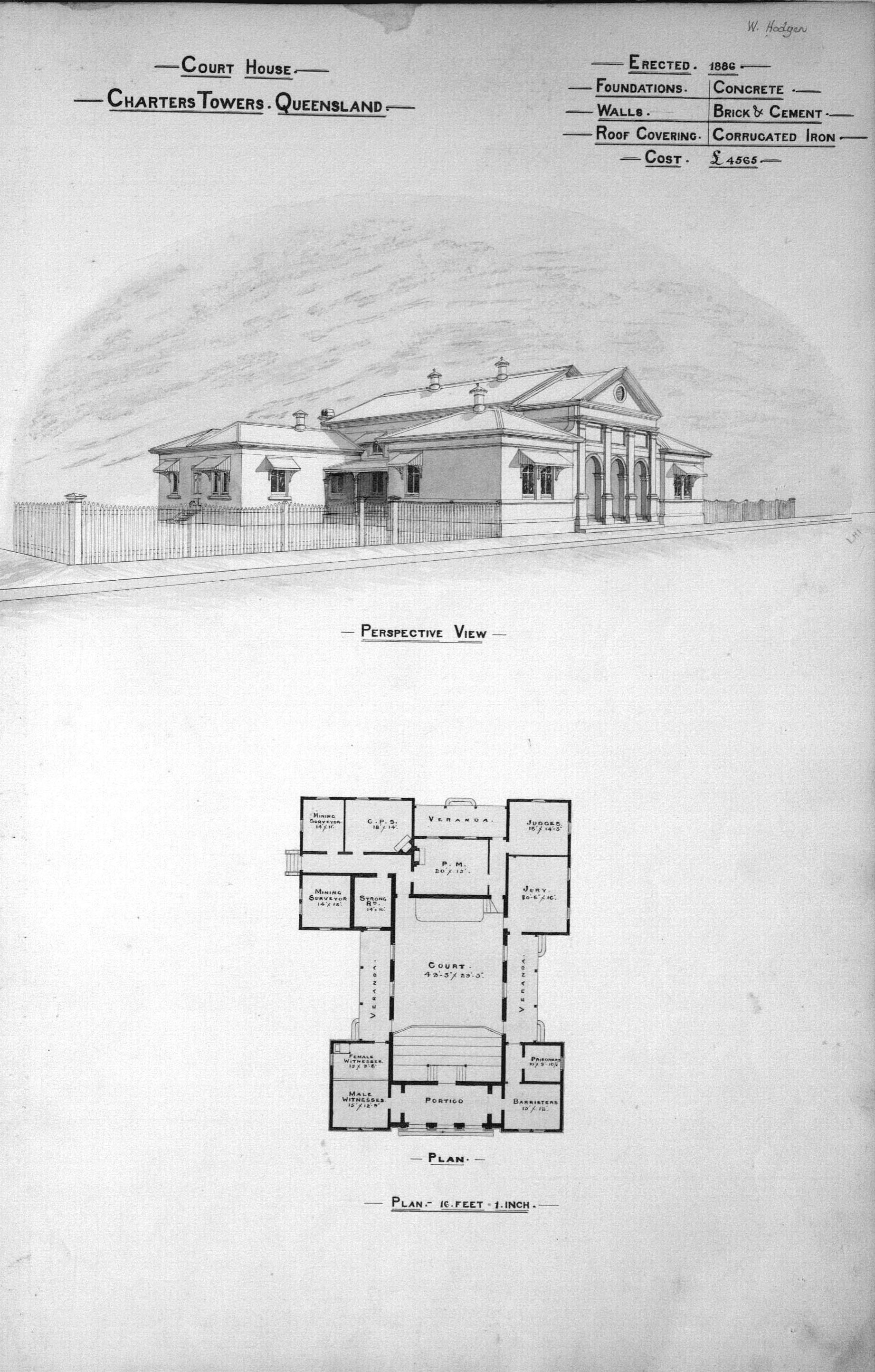 Architectural plan of the Court House, Charters Towers, 1888